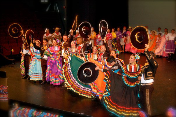 This is a picture of Los Mejicas, the Mexican Folklorico group at UC Santa Cruz bowing after the completion of the Spring Show in 2010.